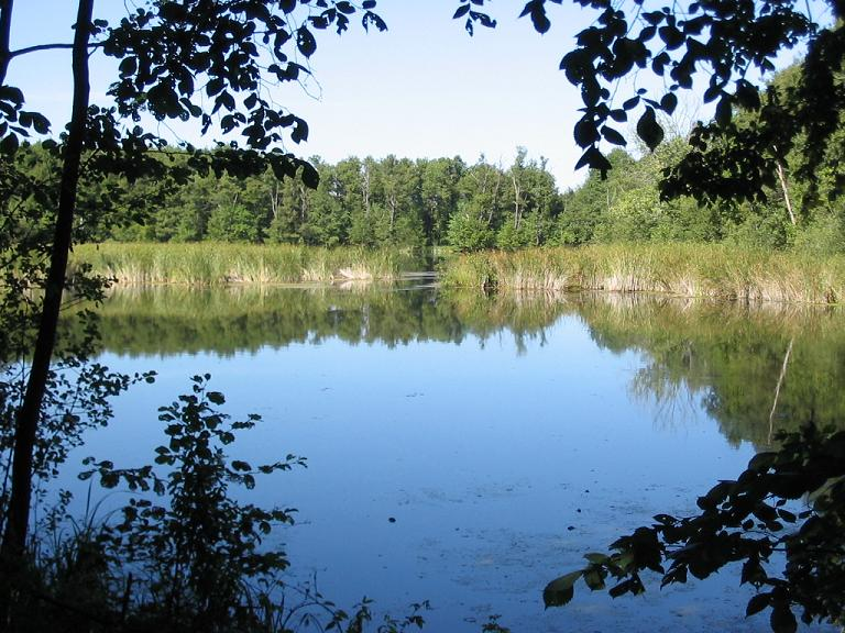 Lake in the nature reserve (german:Naturschutzgebiet) Zarth - a fenny forest, situated in the nature reserve (german:Naturpark) Nuthe Nieplitz at the border between the low Mountain rage Fläming and the glacial valley Baruther Urstromtal. It is part of the town Treuenbrietzen in the district Potsdam Mittelmark, state Brandenburg, Germany.